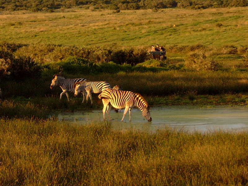 Zebras are very careful, shy animals. We coudn't go any closer.